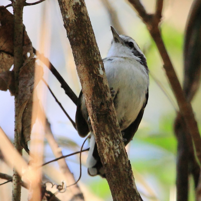 Black-bellied Antwren (female) at Dourado - SP - Brasil